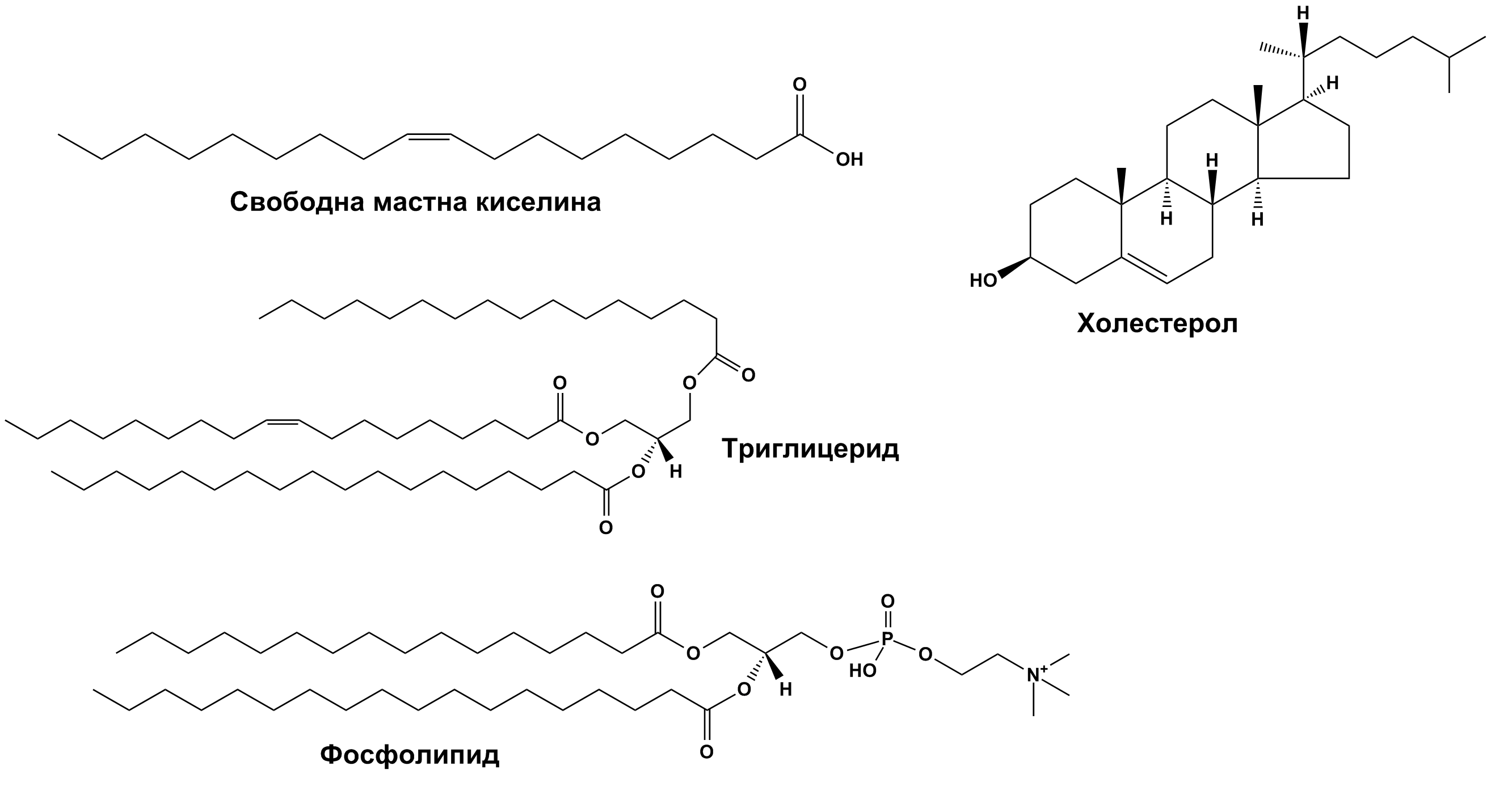 4 Common lipids